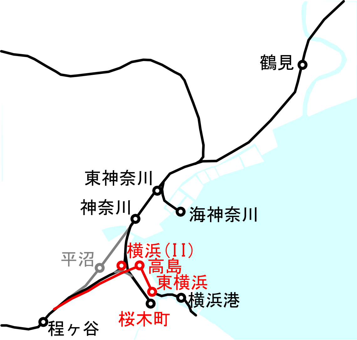 Railway route map around Yokohama port in 1916. New lines / stations since previous map are shown in red. Not changed lines / stations are shown in black. Disused lines / stations are shown in gray. Only national railway network is shown in this map. Yokohama station was moved to its second position to get through track layout. First Yokohama station was renamed to Sakuragicho station, and its freight facility was now splitted to Higashi-Yokohama station. Takashima freight station was opened.